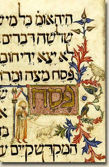 The lamps that appear in the fine panel in the 14th-century Kaufmann Haggadah, depicting the interior of a synagogue in the text, are indicative of a certain Middle Eastern connection (fol. 42r). This panel illustrates the morning prayer, which forms part of the Pesach ritual. (This practice – no longer followed – consisted of reciting the haggadah in the synagogue for the benefit of those who were unskilled in reciting it.) These lamps must have been quite widespread in contemporary Catalonia because they appear not only in other places of our manuscript (fols 1v; 6r) but in other Haggadahs of Catalonian origin too. In connection with these lamps it may be noted that they are characteristic of Cairene mosques of the Mamluk period – the best known among them are perhaps the splendid specimens decorating the Mosque of Sultan Hasan.